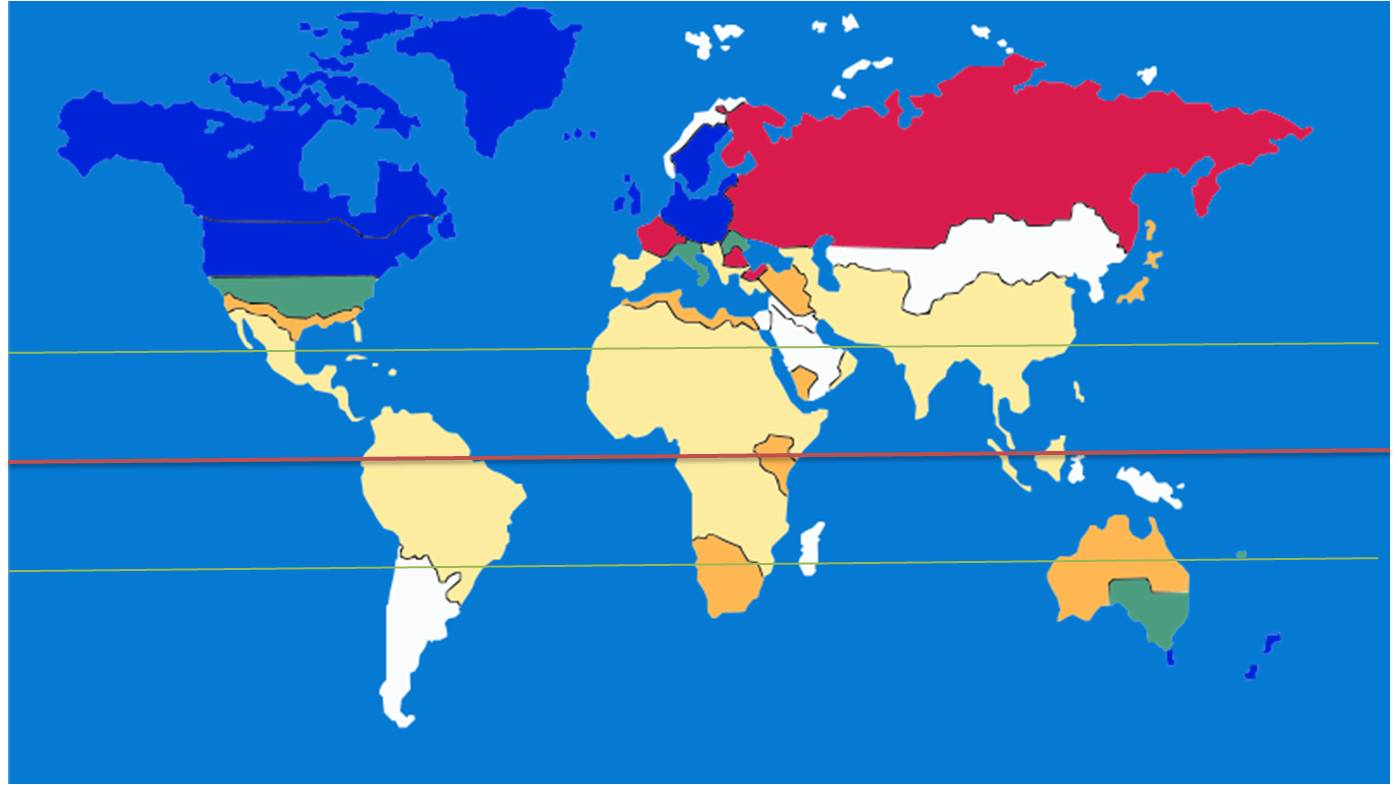 This slide shows the global prevalence of multiple sclerosis.